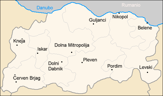 map of the Oblast Pleven in Bulgaria, labelled in Esperanto